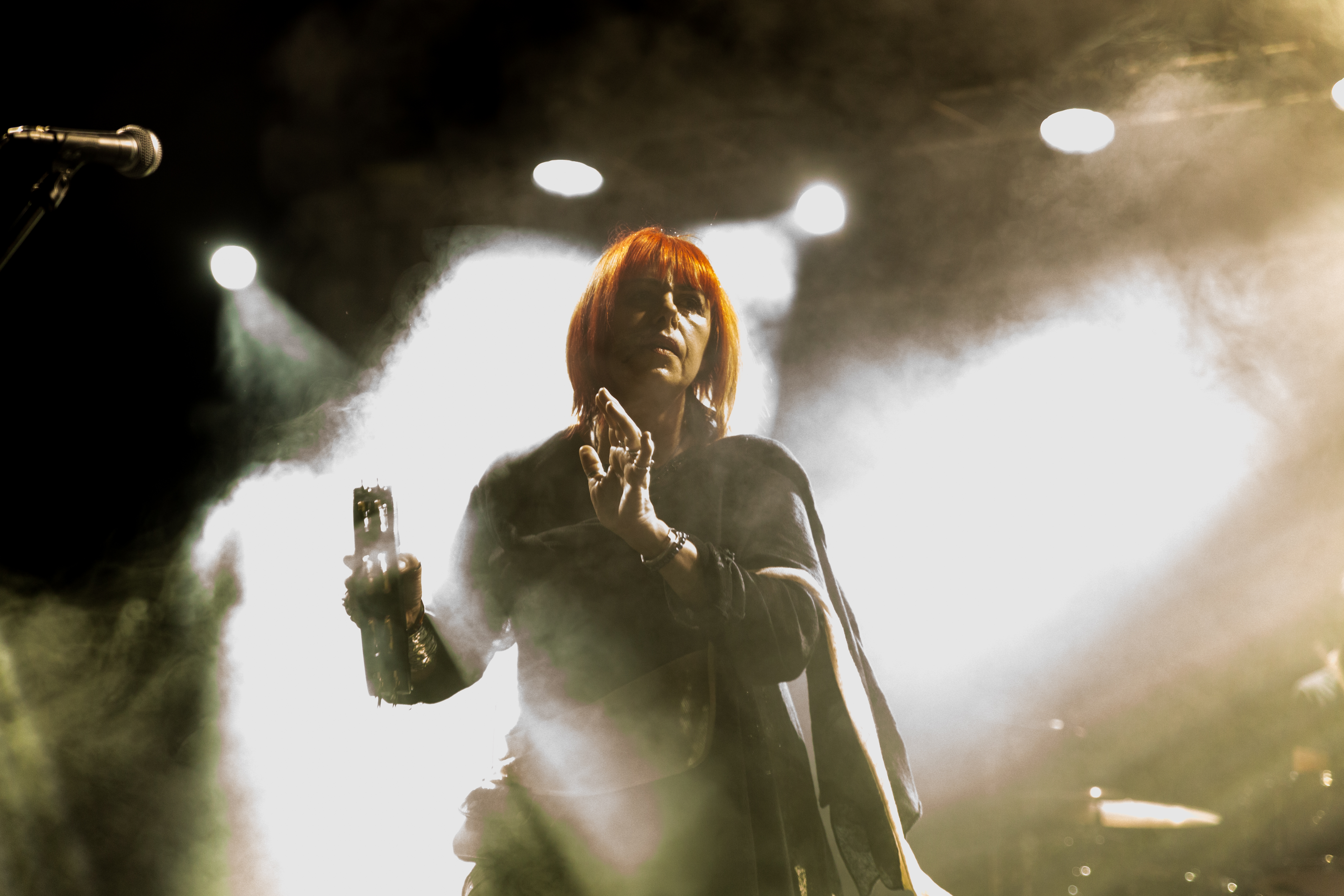 The british gothic rock band Skeletal Family at the Wave-Gotik-Treffen 2017 in Leipzig/Germany (Venue Heathen village).